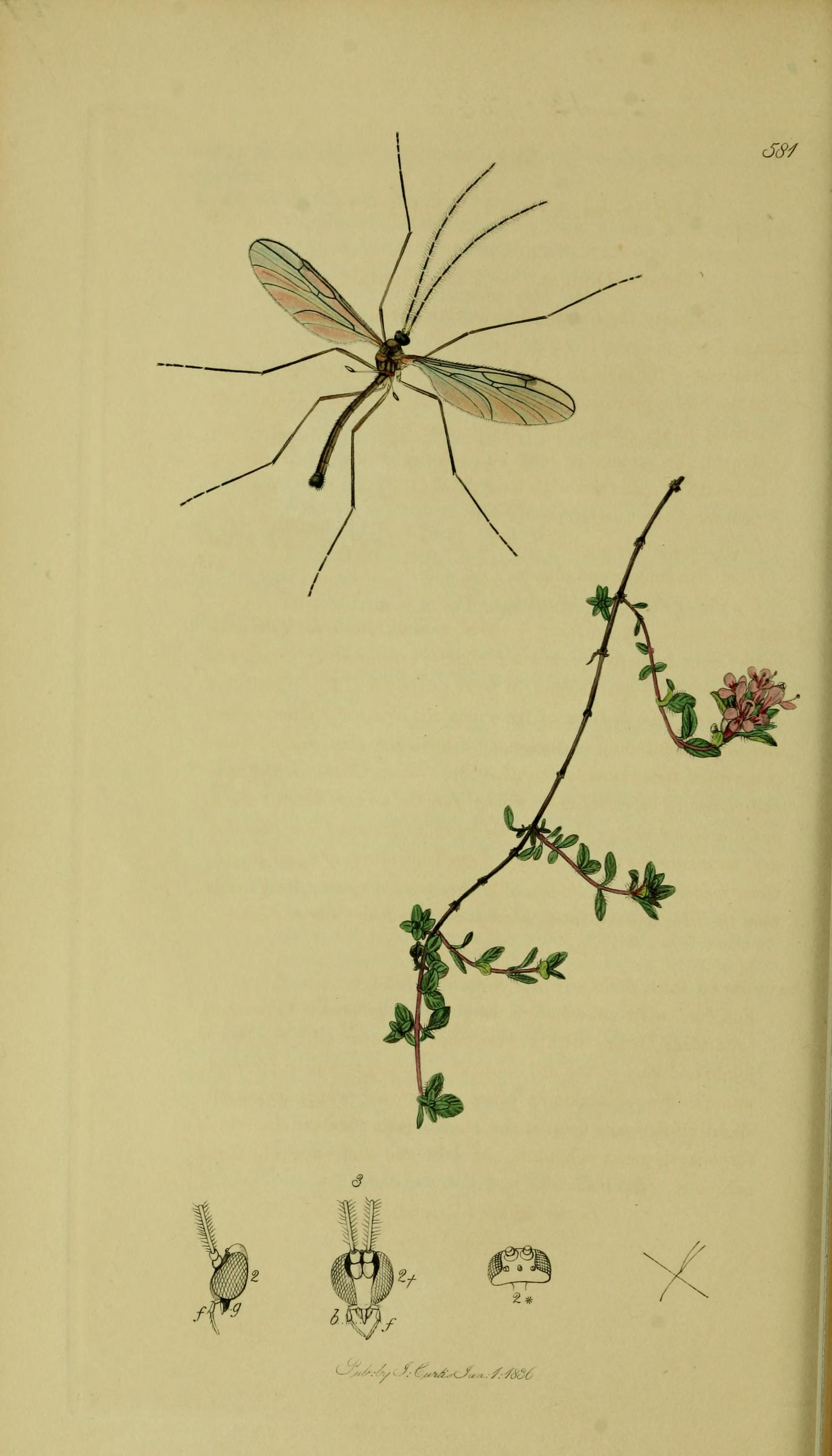 John Curtis British Entomology (1824-1840) Folio 581 Diptera: Messala saundersii = Bolitophila saundersii Curtis. The plant is Thymus serpyllum (Breckland Thyme)